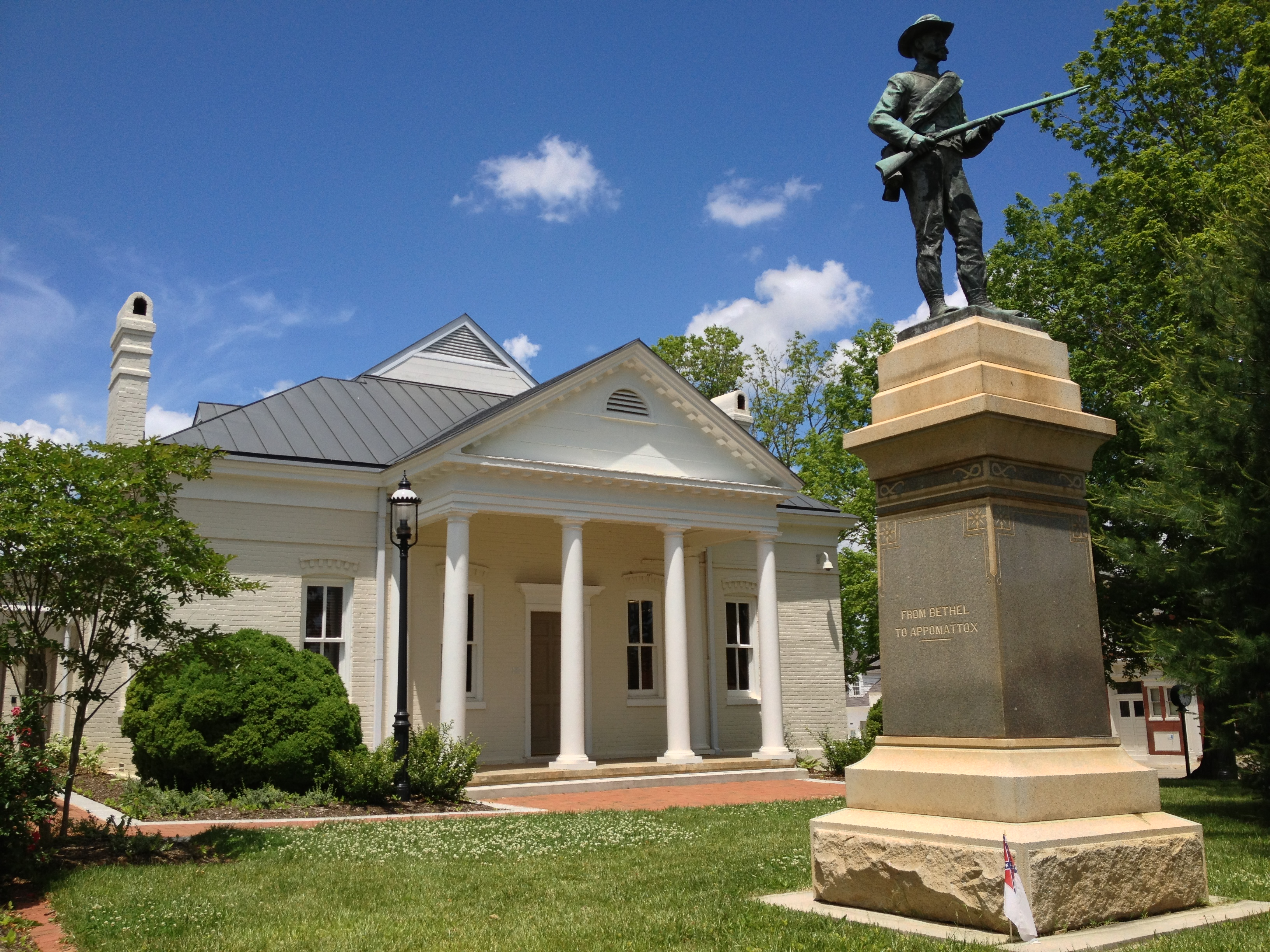 Mecklenburg County Courthouse, SW corner of junction of U.S. 58 and VA 92 Boydton